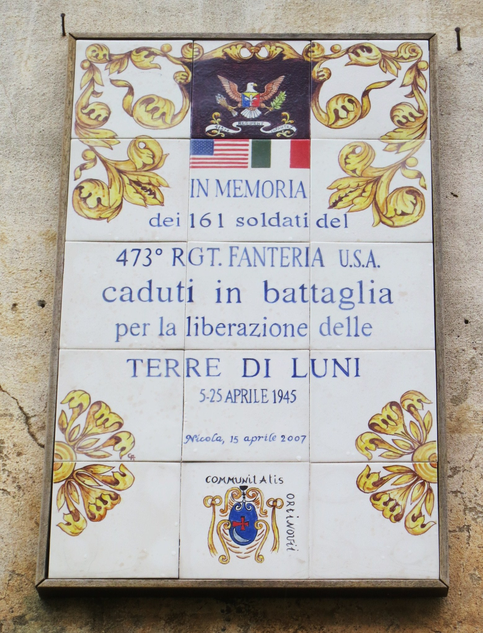 473rd Regiment of the US Army. Photo of memorial plaque in Nicola(SP) Italy. Nicola is a frazione of Ortonovo in the Province of La Spezia. Terre di Luna refers to the region called Lunigiana.